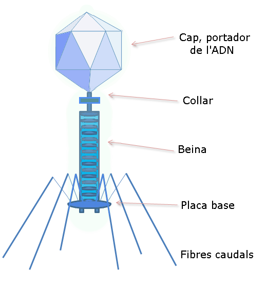 Basic structure of a bacteriophage virus, with tags in Catalan.